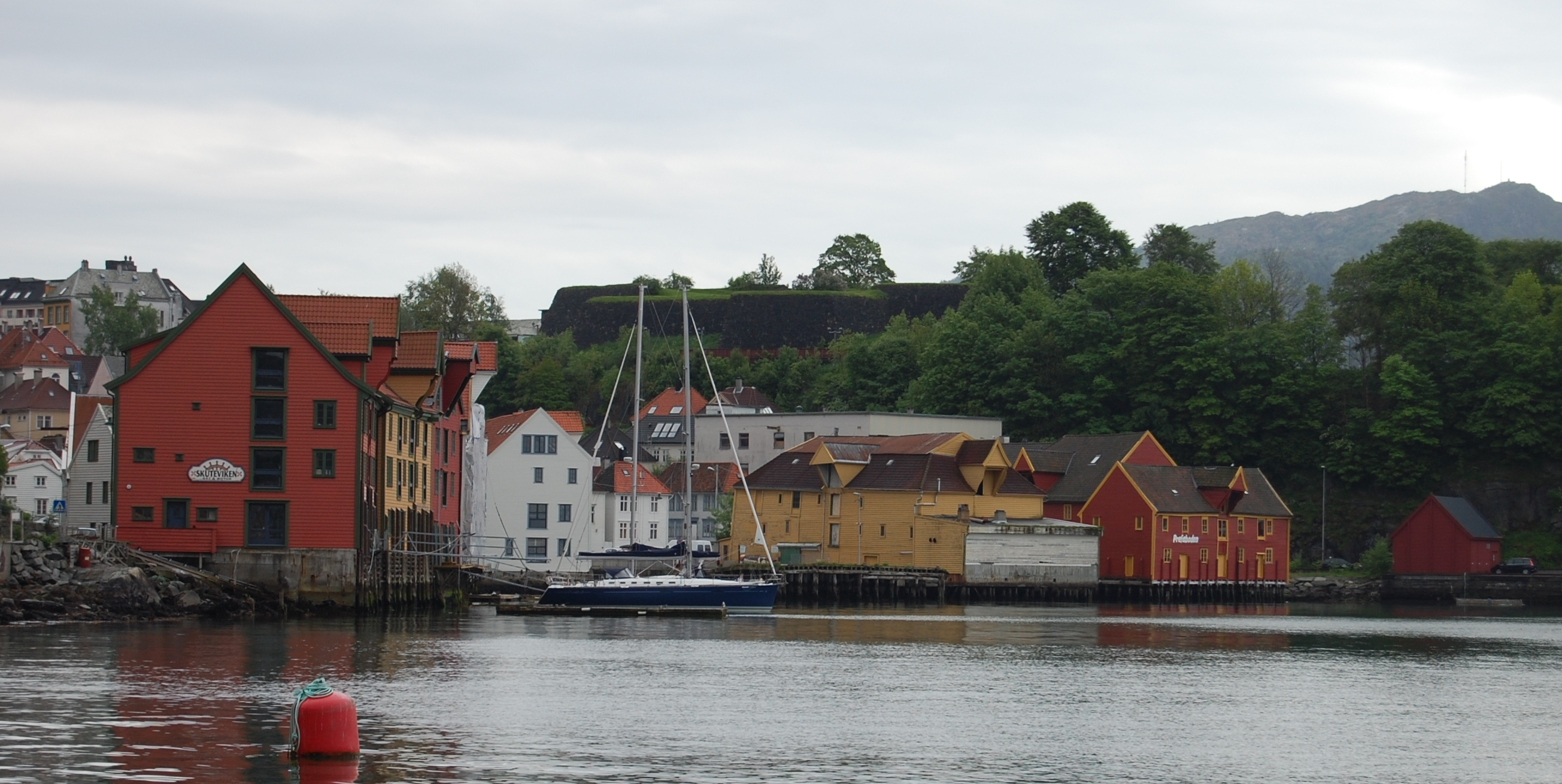 Skuteviken, Bergen, Norway